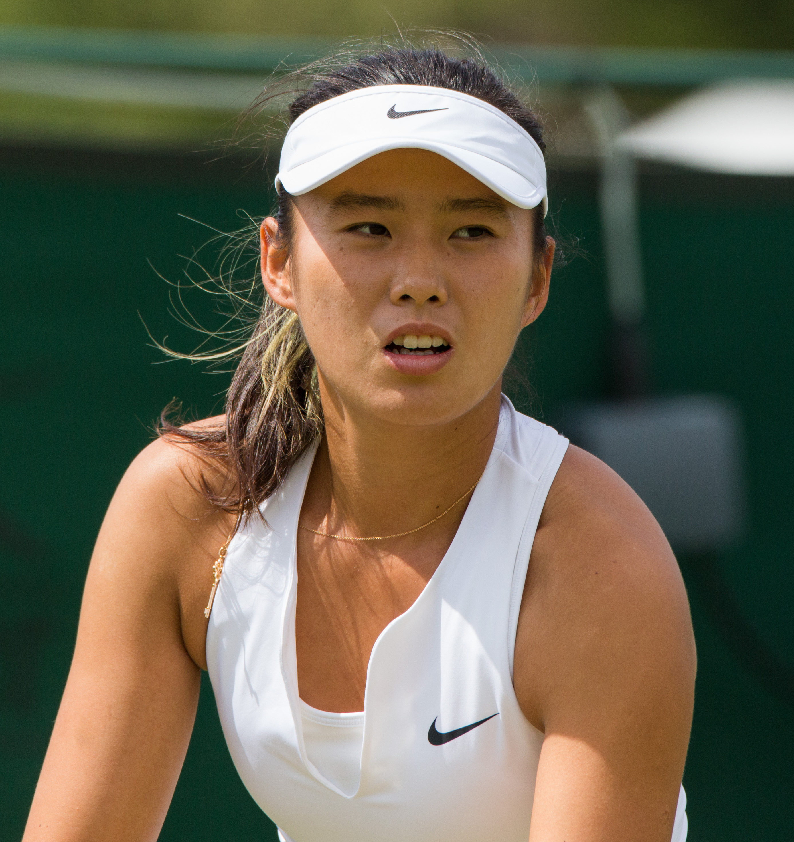 Yang Zhaoxuan competing in the first round of the 2015 Wimbledon Qualifying Tournament at the Bank of England Sports Grounds in Roehampton, England. The winners of three rounds of competition qualify for the main draw of Wimbledon the following week.